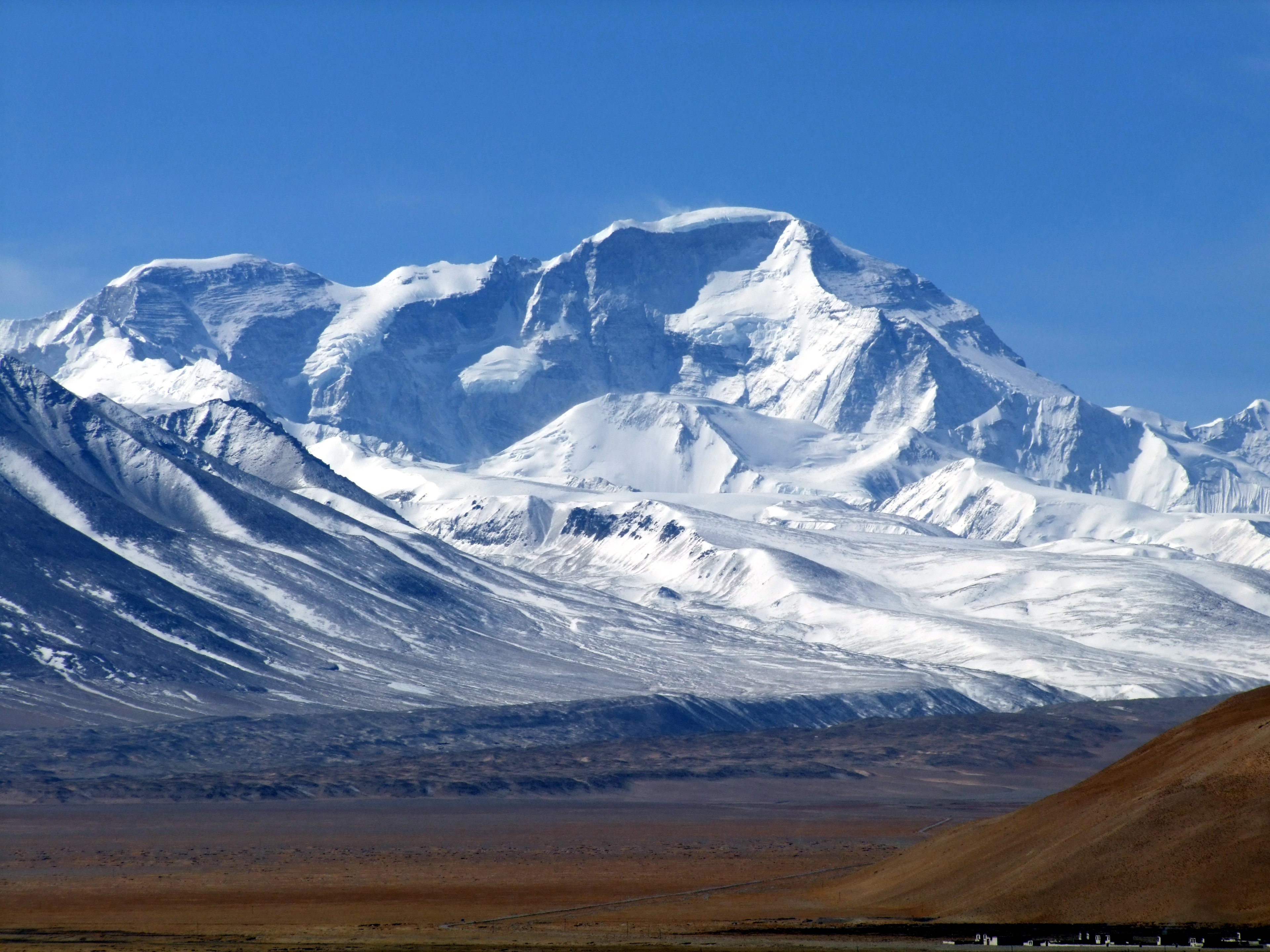 The North Face of Cho Oyu (8201m), the sixth highest mountain of world, from the village of Tingri in Tibet. The 7916m peak on the left is the one the Nepalese government propose be named Tenzing Peak.